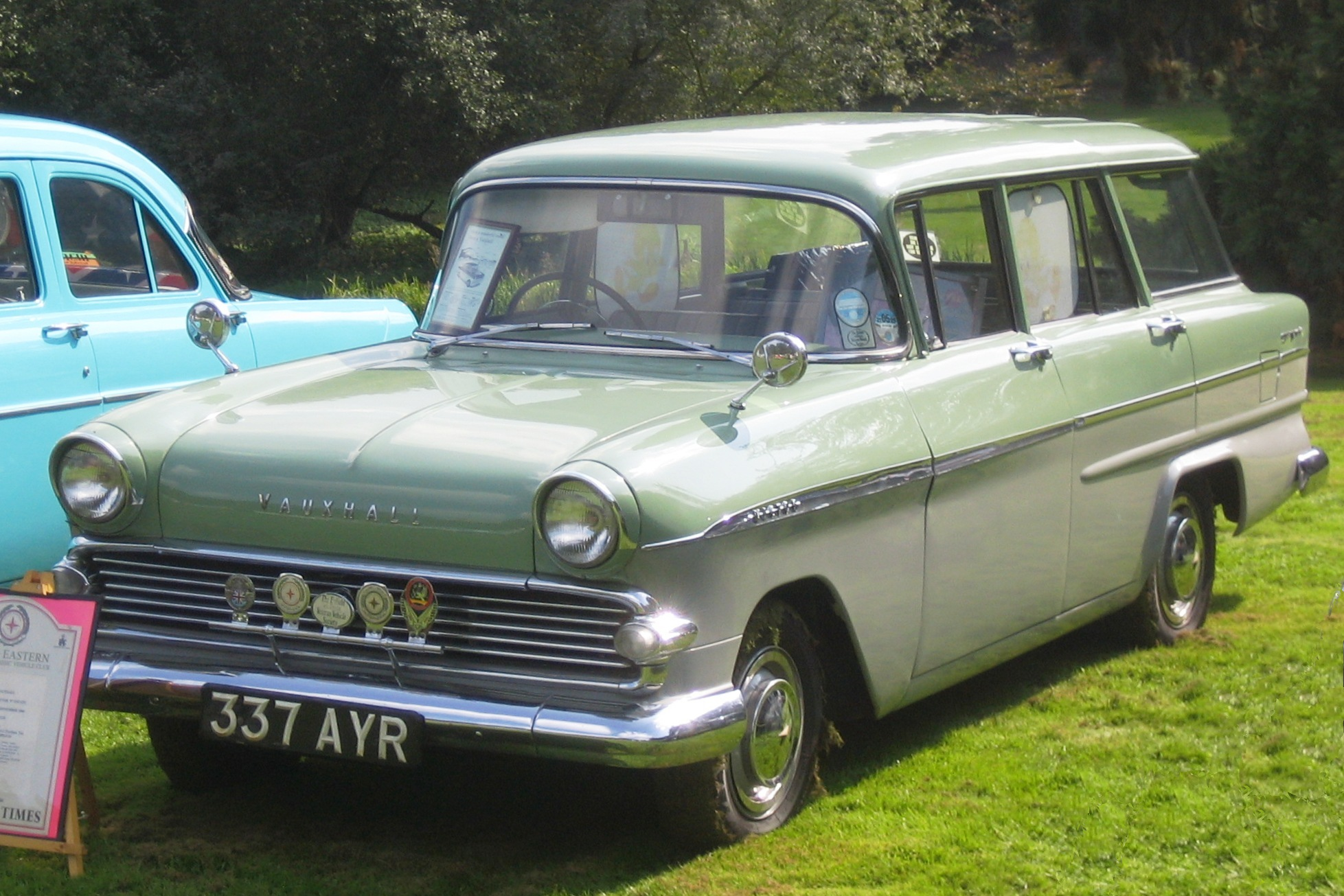 Vauxhall Victor F type, Series 11 estate, at Oldtimerfest in Castle Hedingham